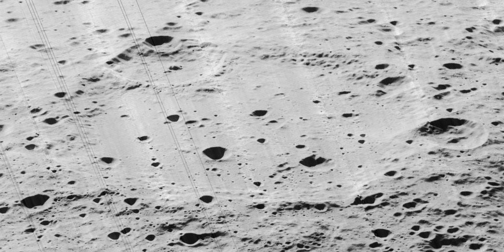 Oblique view of D'Alembert, on the far side of the moon, facing west.